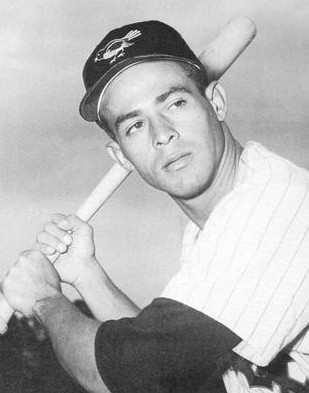 Professional baseball player Luis Aparicio